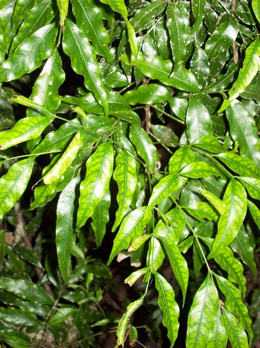 Lepiderema pulchella at Coffs Harbour Botanic Gardens, NSW, Australia